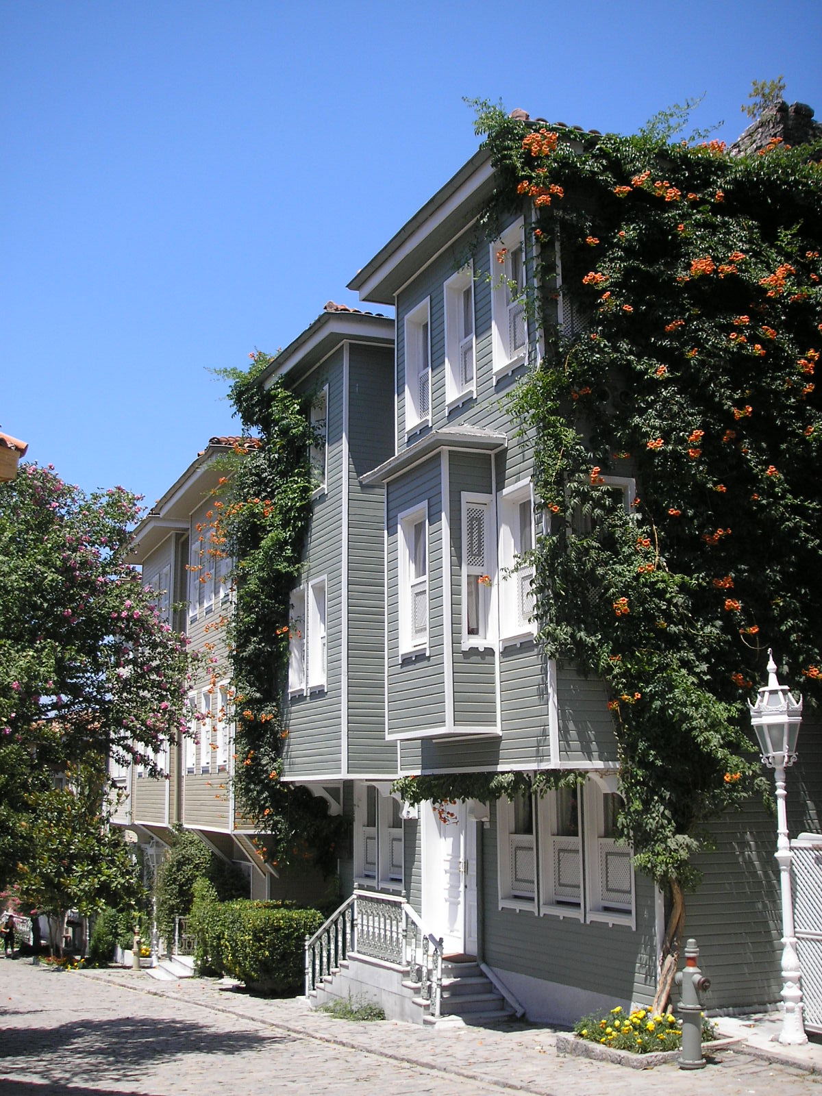 The Soğukçeşme Sokağı is a small street in-between the Hagia Sophia and Topkapi Palace. The street is full of Ottoman-era wooden mansions that have been renovated by the Automobile Club of Turkey into luxury hotels.